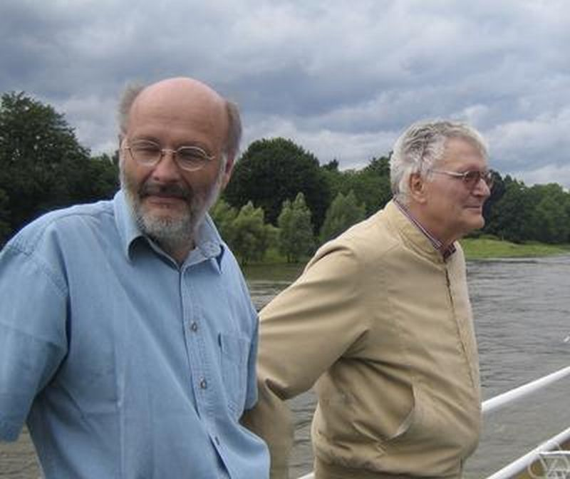 Eduard Looijenga (left), Herbert Kurke (right), Mathematische Arbeitstagung Bonn 2007, Boat trip on Rhine